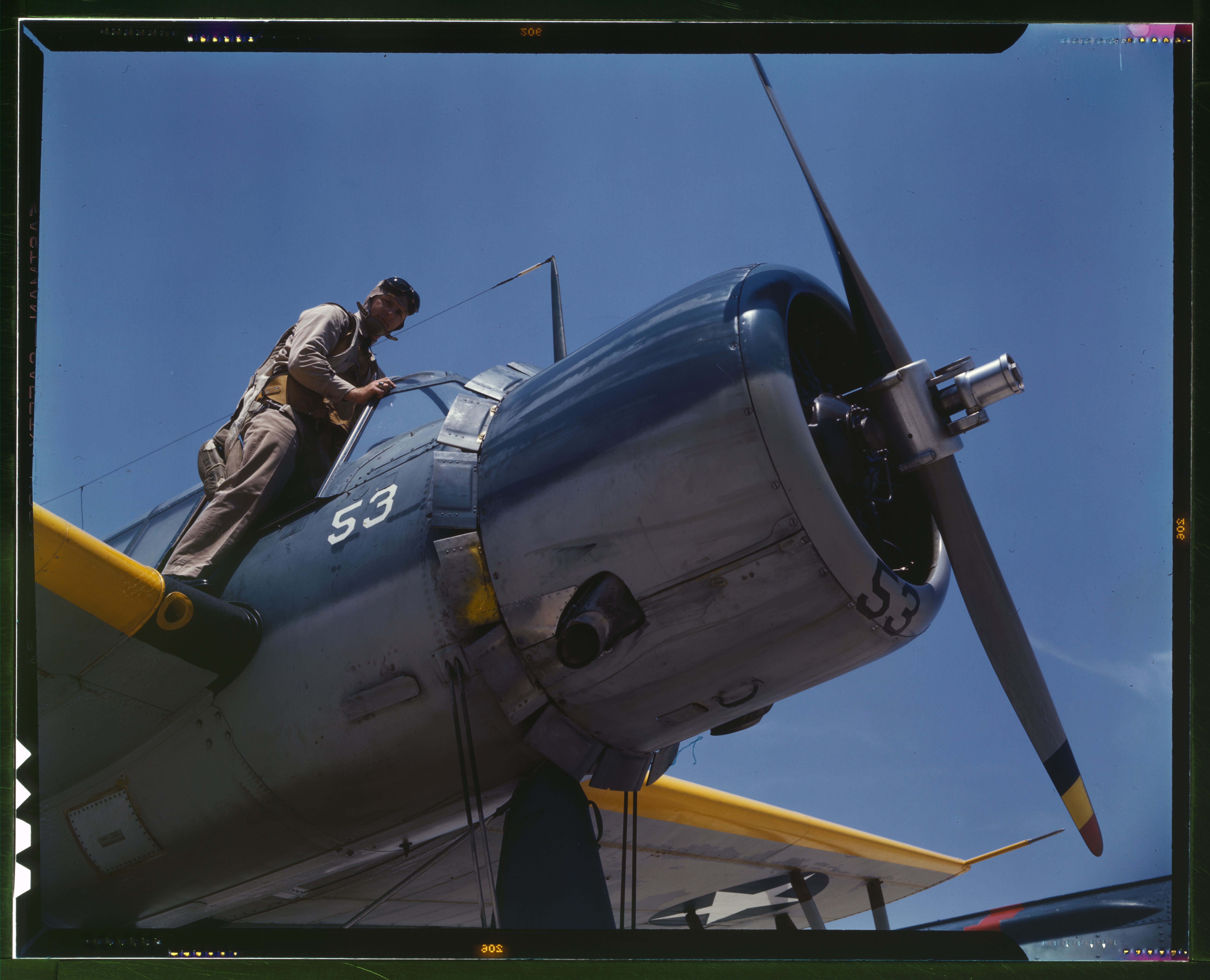 Aviation cadet in training at the Naval Air Base, Corpus Christi, Texas